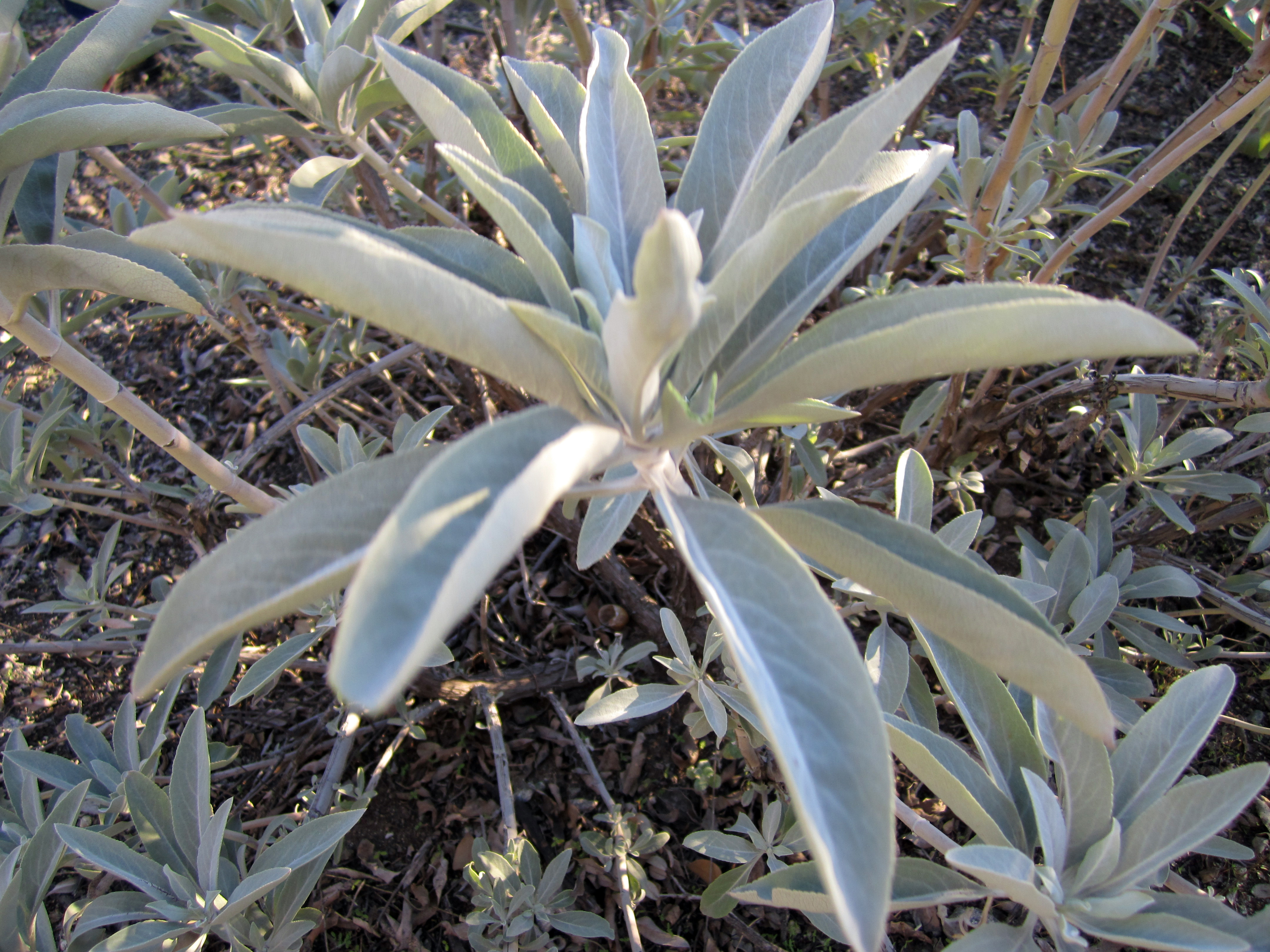 Botanical: Salvia apiana Common: White Sage Location: Rancho Santa Ana Botanical Garden Date: 2010-12-01